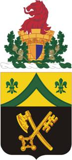 Symbolism: Shield: The gold of the shield is the color for Armor. The fleurs-de-lis symbolize the organization’s Normandy and Northern France campaigns. The chevron “in point embowed” recalls the Battle of the Bulge, the Ardennes-Alsace campaign. The key, occurring frequently in the civic arms of the towns of Rheinprovinz (the province in which the Rhine River crossing was made and the Siegfried line breached), symbolizes the Rhineland campaign. Symbolical of the important successes of this campaign, it allegorically represents the “Key to Victory” in Europe. The battle-axe, a favorite Teutonic weapon and heraldic charge throughout the entire medieval period, signifies the Central Europe campaign. Crest: The red lion’s head is adapted from the Arms of the Duchy of Luxembourg and the gold tower alludes to the successful accomplishment of the unit’s mission in that area in World War II. The oak leaves symbolize honor, victory and valor and the shield, in the colors of the Luxembourg Croix de Guerre, alludes to the award of that decoration to the 81st Armor. Background: The coat of arms was originally approved for the 81st Medium Tank Battalion on 18 April 1953. It was amended to correct the spelling of the Latin motto on 19 April 1954. It was redesignated for the 81st Armor Regiment on 31 January 1962. The insignia was amended to add a crest on 25 November 1964. It was amended to correct the wording in the blazon of the crest on 29 October 1965.